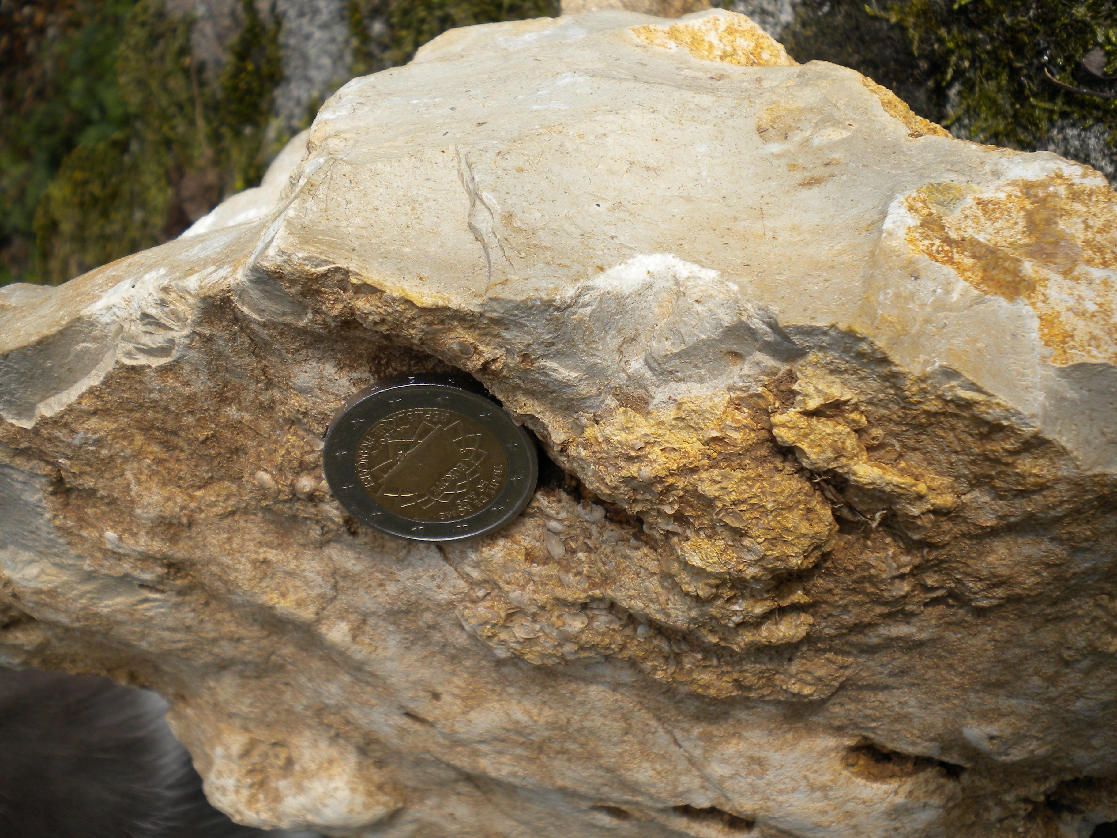 Kimmeridgian limestone from the Mareuil Anticline: light grey micritic limestone associated with brownish weathering fossiliferous (“shelly”) limestone. Found near Sainte-Croix-de-Mareuil, Dordogne, France.